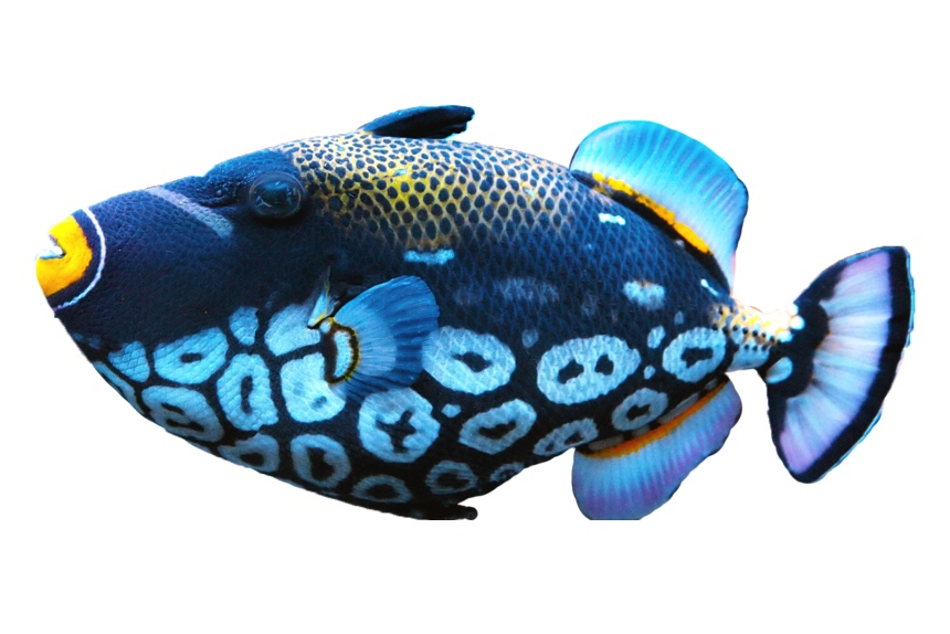 A fish in Särkänniemi Aquarium, Tampere.